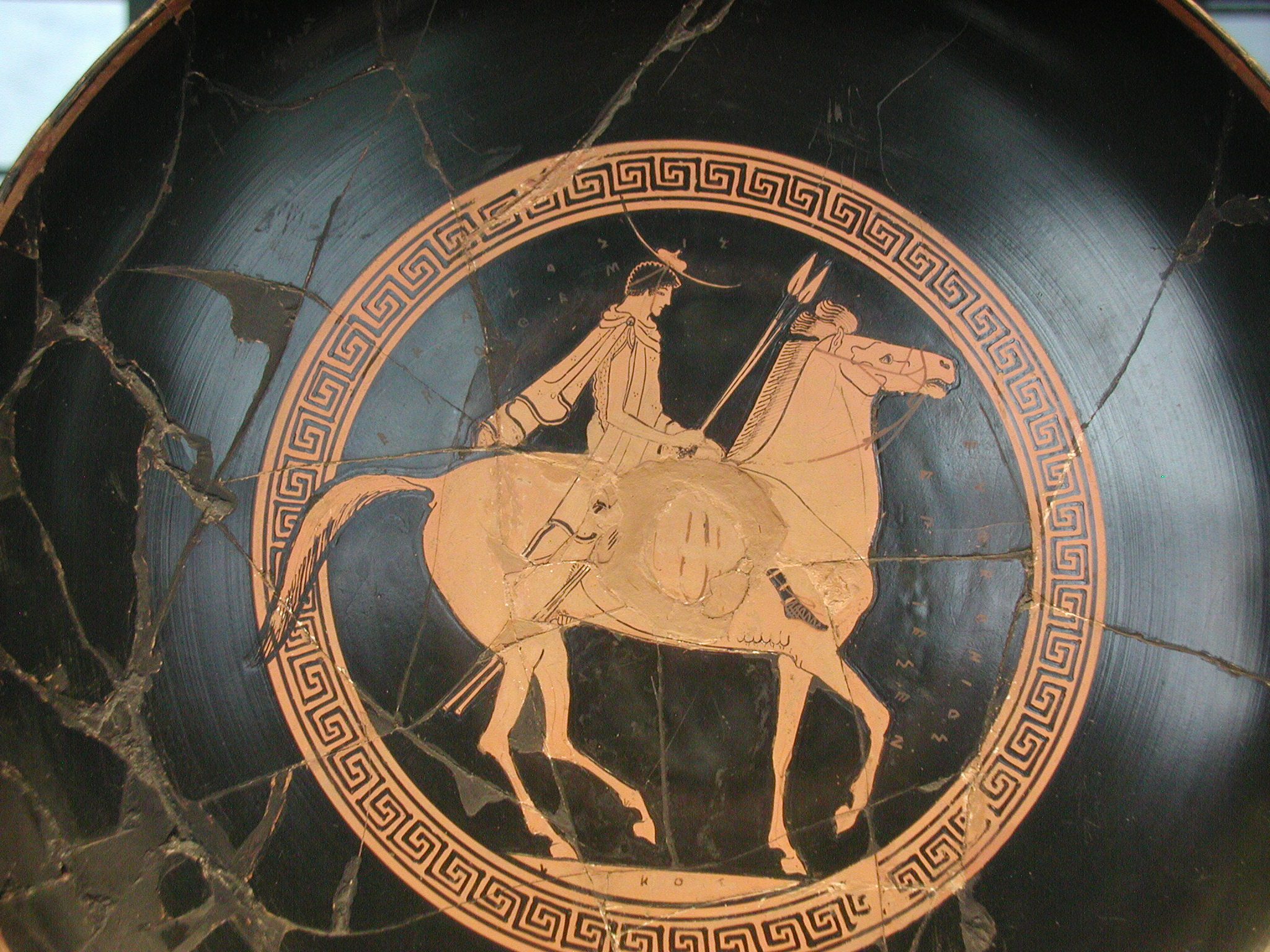 Rider. Interior of an Attic red-figure cup, ca. 500–490 BC. From Vulci.